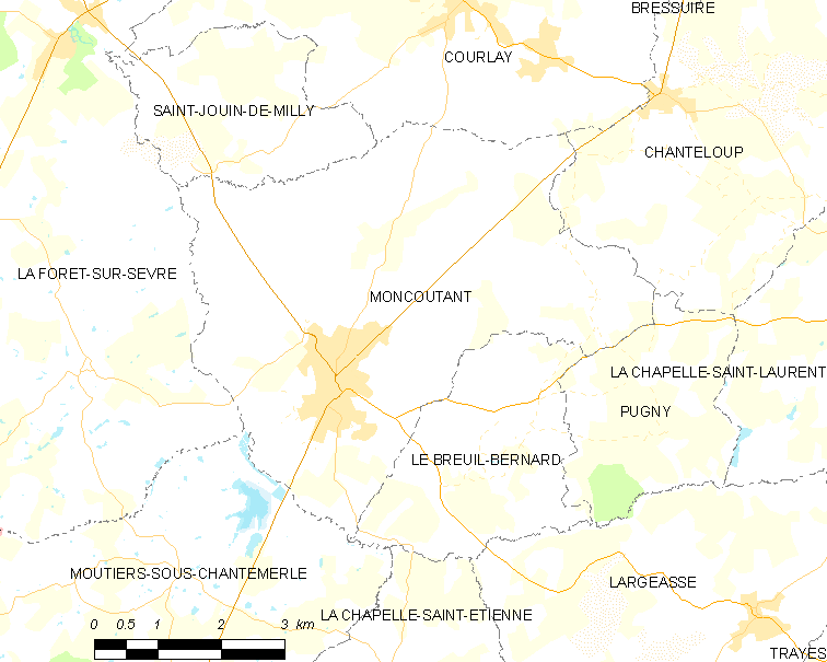 Map of French municipality Moncoutant